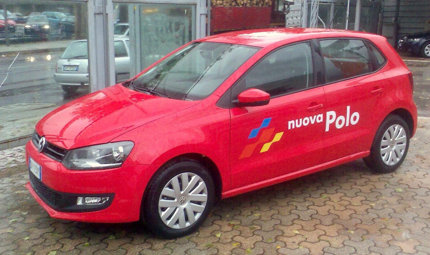 VW Polo